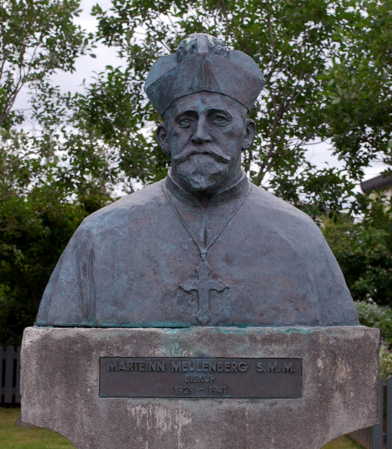 Sculpture of Martin Meulenberg in Reykjavík, Iceland